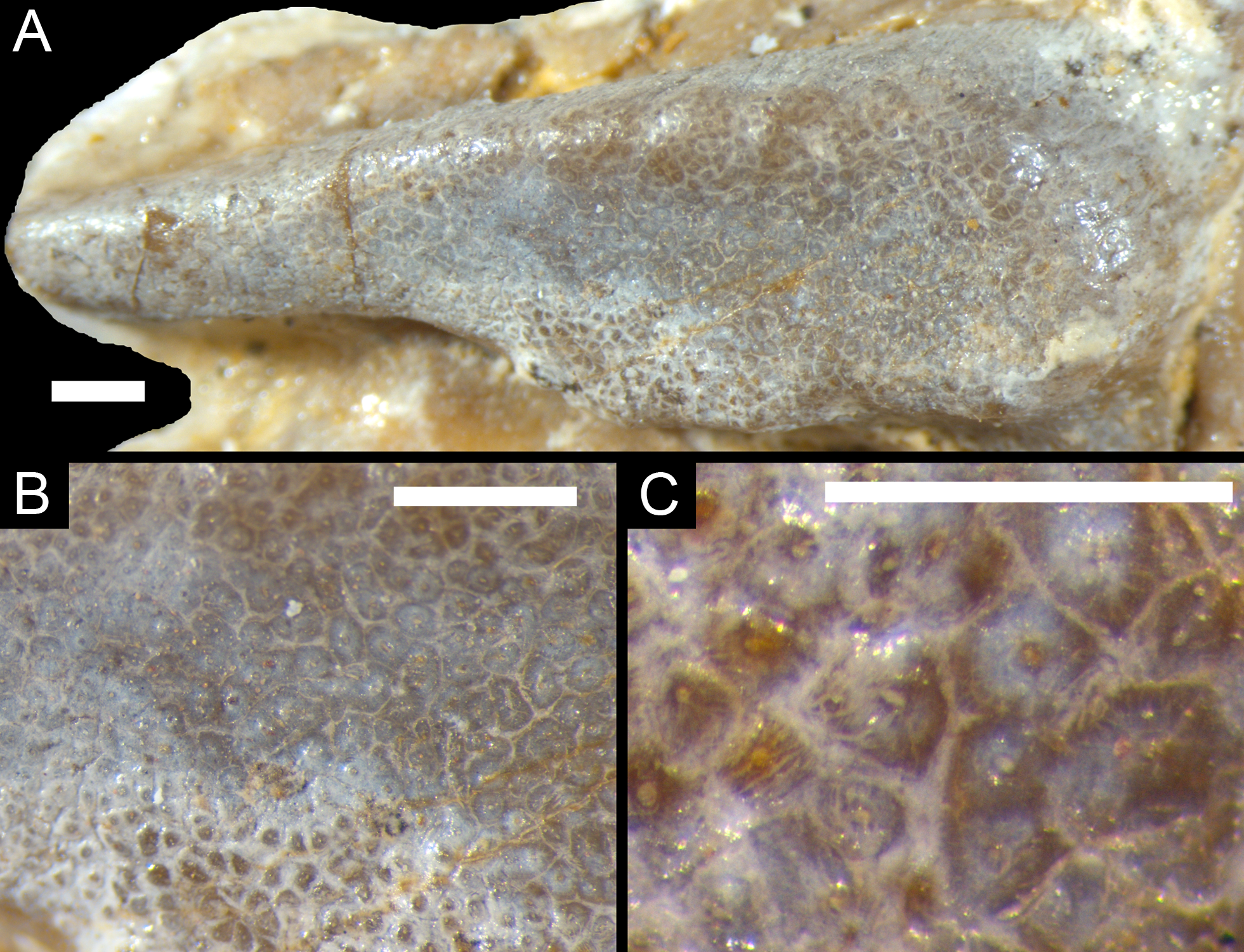 Details of dentition of O. muehlheimensis (Holotype, BSPG 2009 I 23). (A)–Left maxillary tooth plate in ventral view (anterior is to the left). (B)–Enlargement of posterior part of left maxillary tooth plate, showing compound structure of the plate. (C)–Further enlargement of left maxillary tooth plate, showing closely packed, worn teeth with central pulp cavities. Scale bars are 1 mm (A, B) and 0.5 mm (C).